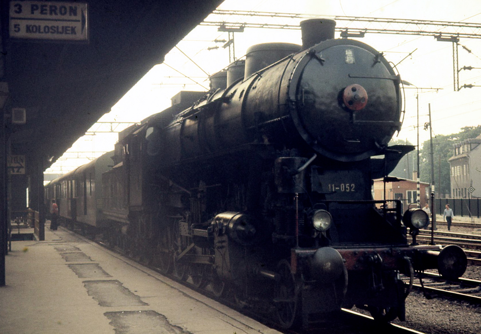 A Hungarian-type standard 4-8-0 working on Yugoslav Railways as class 11, Zagreb Glavni station, 1972